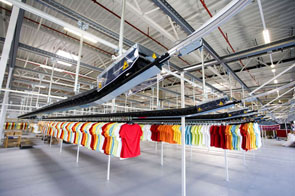 Meyer & Meyer Warehouse Peine